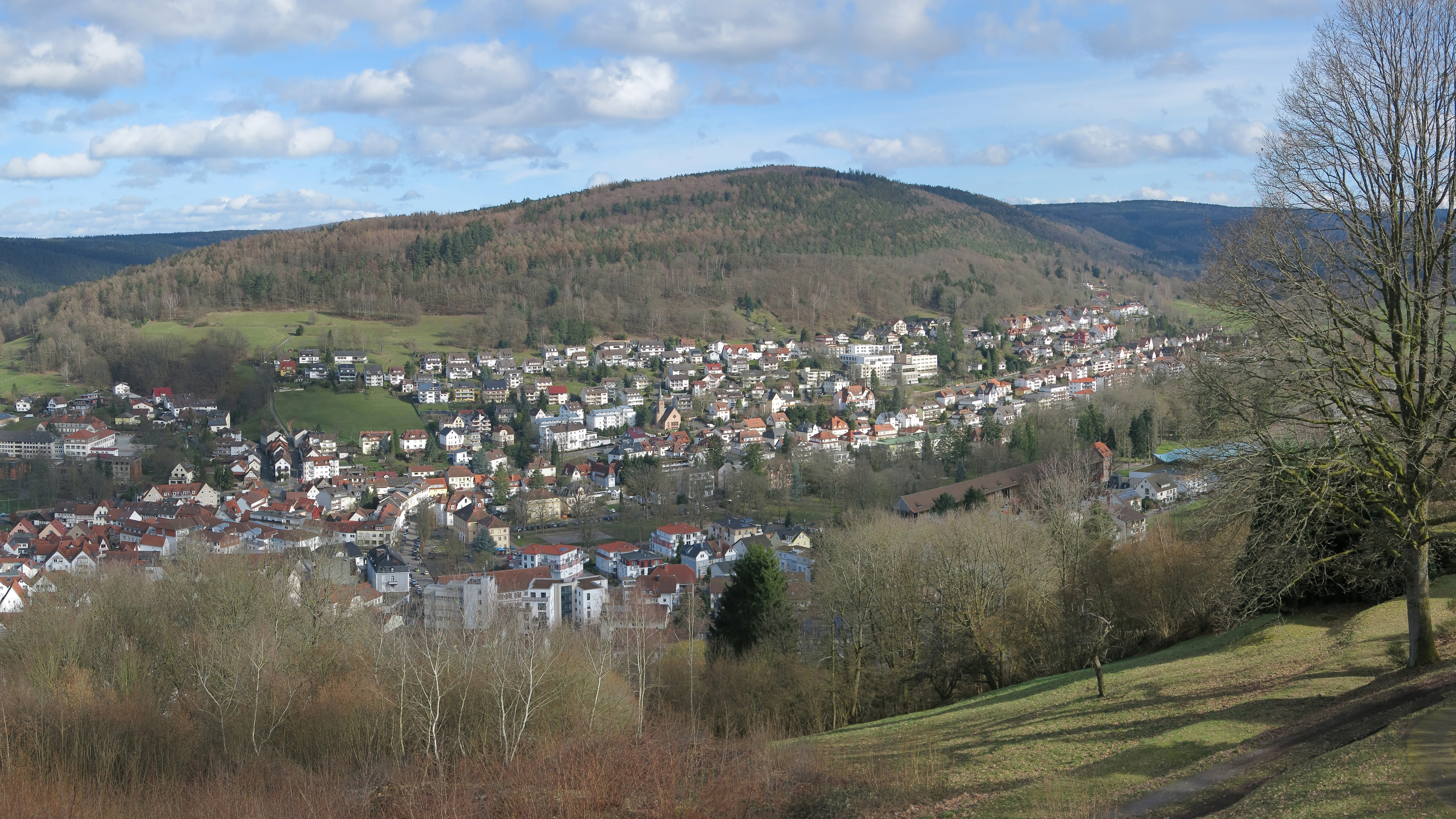 View from the watchtower on the Molkenberg over Bad Orb to the Wintersberg